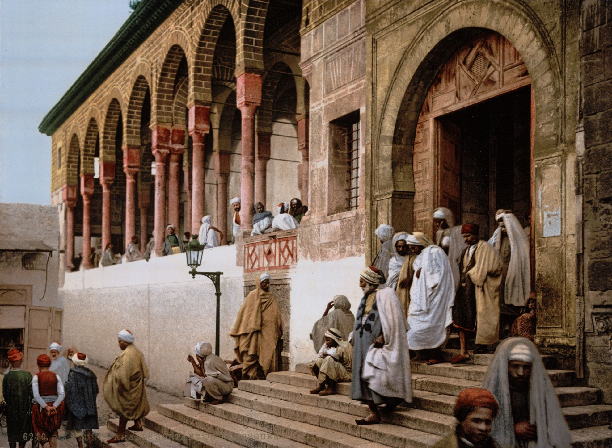 Mosque in Tunis (Tunisia, 1899).